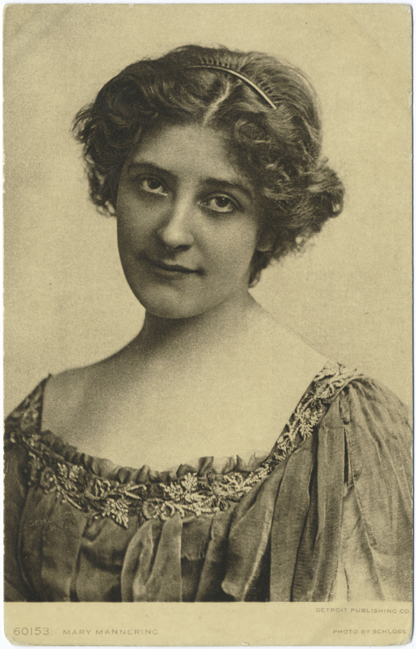 An image of Mary Mannering.